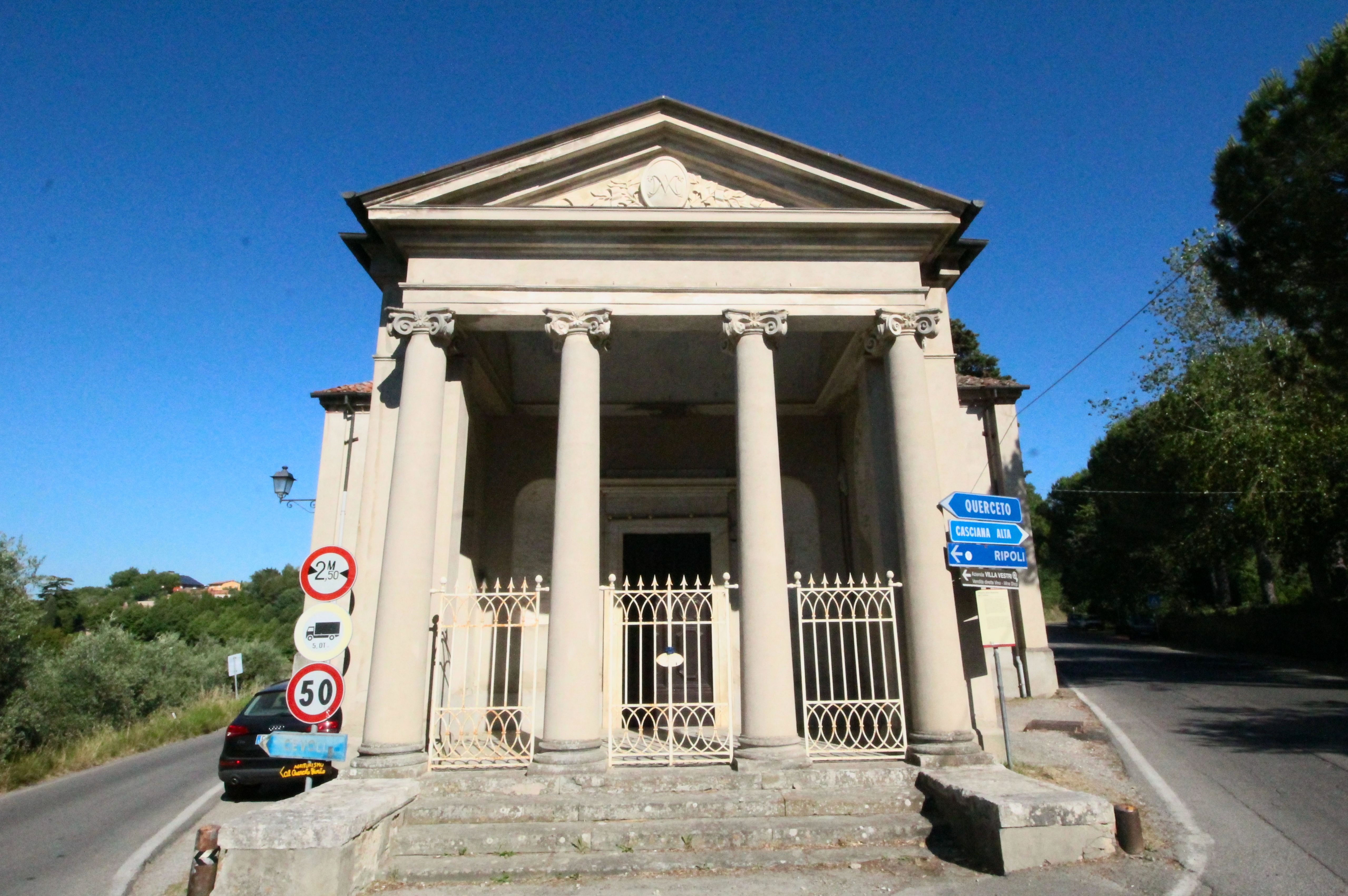 Church/Oratory Oratorio della Madonna del Carmine, just outside Lari, hamlet of Casciana Terme Lari, Province of Pisa, Tuscany, Italy